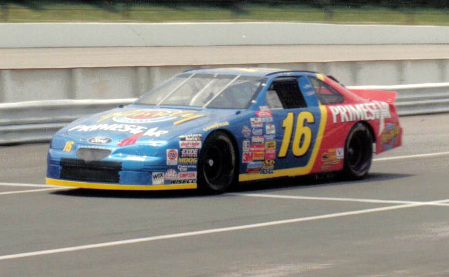 NASCAR driver Ted Musgrave at Pocono in 1997.